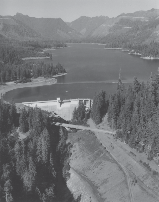 Aerial view looking north over Wynoochee Dam (WA) and reservoir.